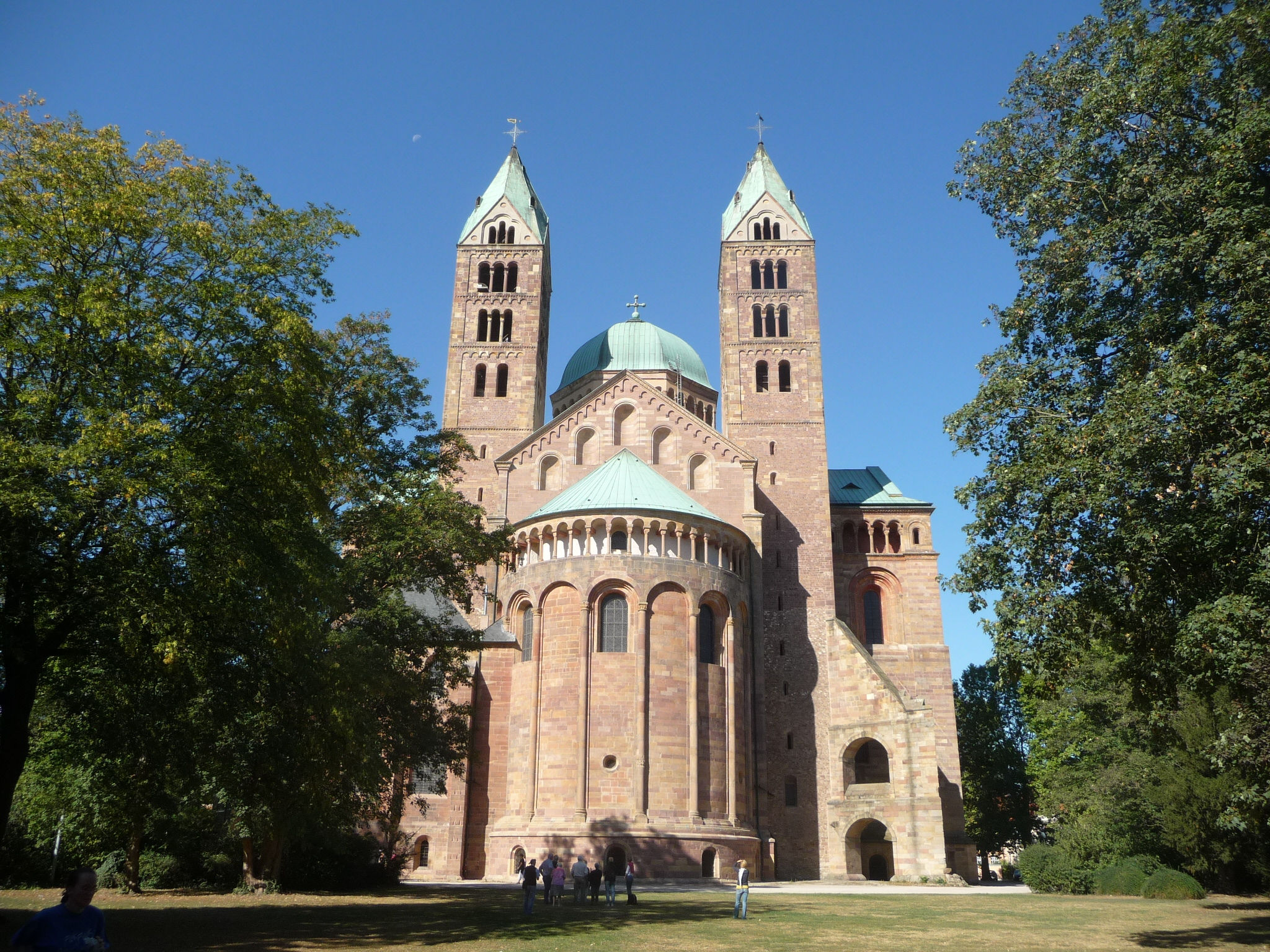 East front of Speyer Cathedral, Germany